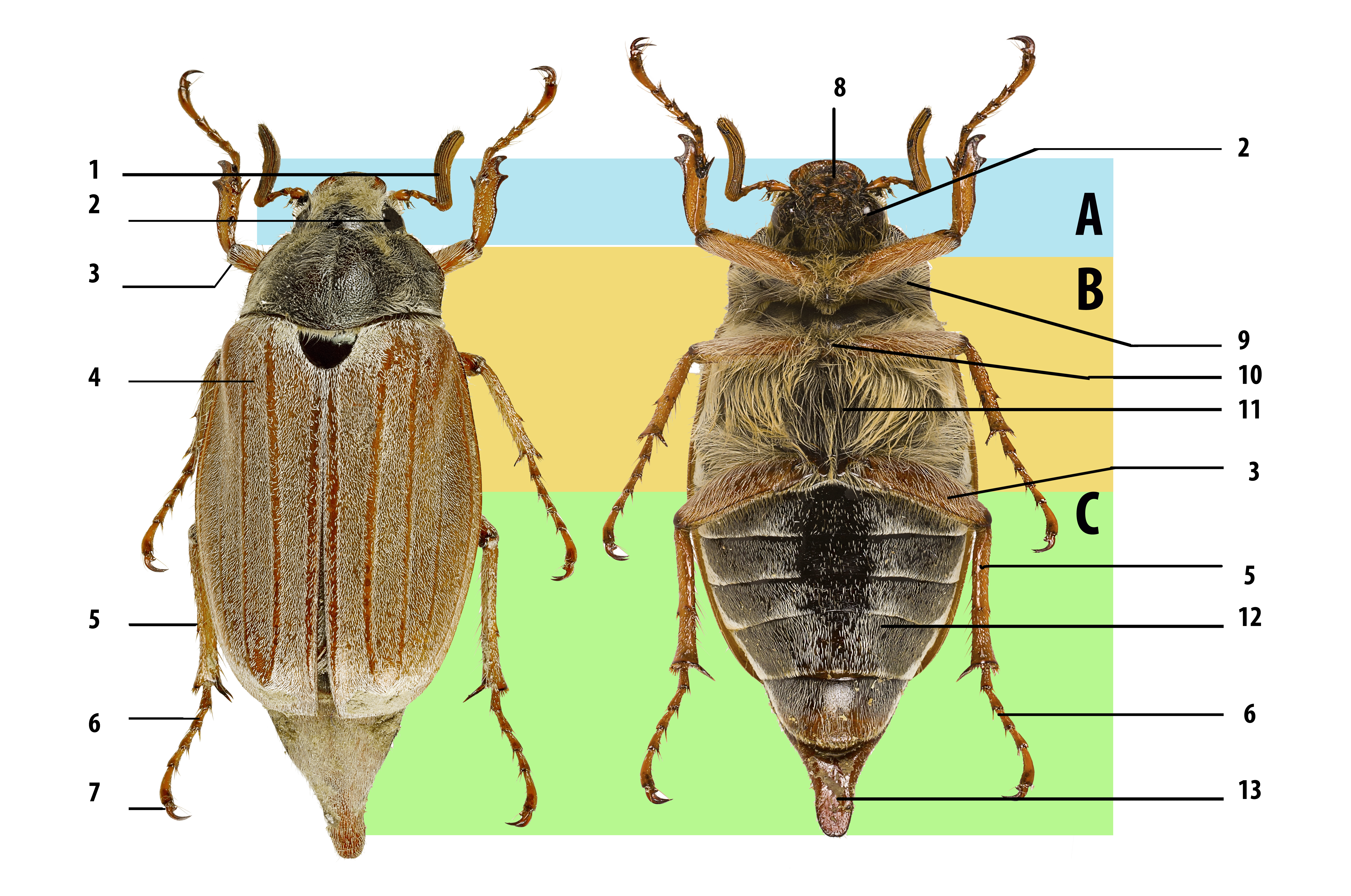 Common Cockchafer - Male - Two views of same specimen :: Locality: Carbonnel, Rieux-de-Pelleport, Ariège, France